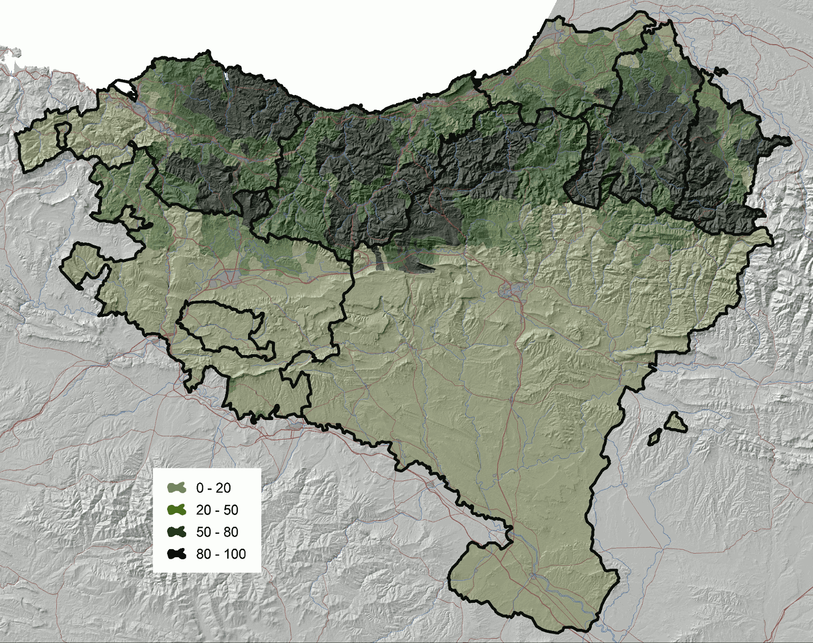 Figures show percentage of Basque speaking people (in 2006)